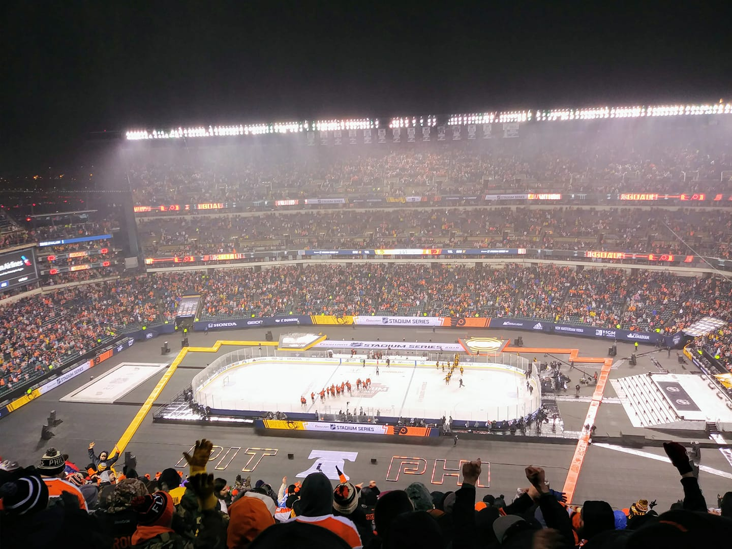 Philadelphia Flyers celebrating their 4-3 overtime victory over the Pittsburgh Penguins in the 2019 NHL Stadium Series game at Lincoln Financial Field in Philadelphia.